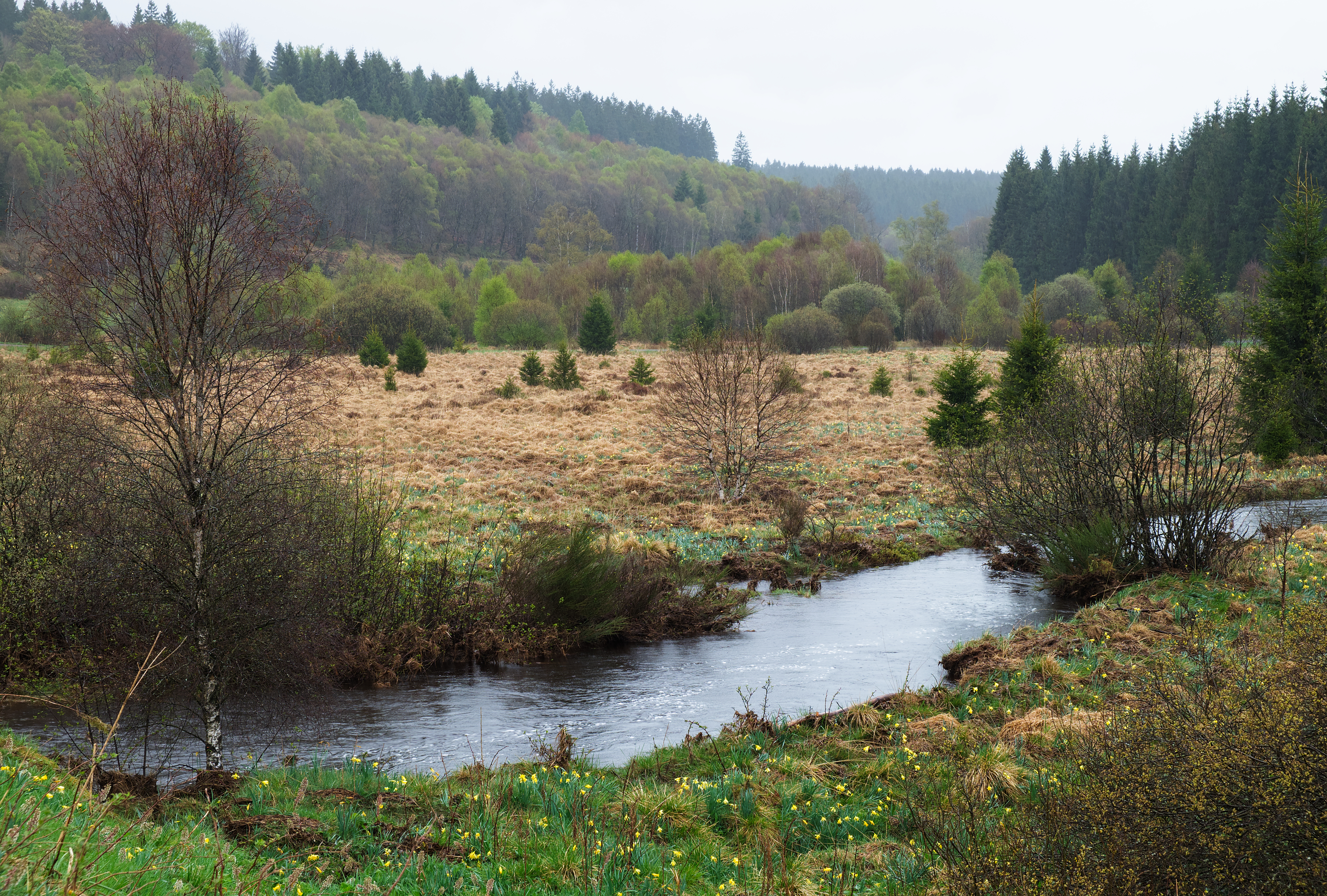 Rur stream and the High Fens along the RAVeL L48 in Bütgenbach, Belgium